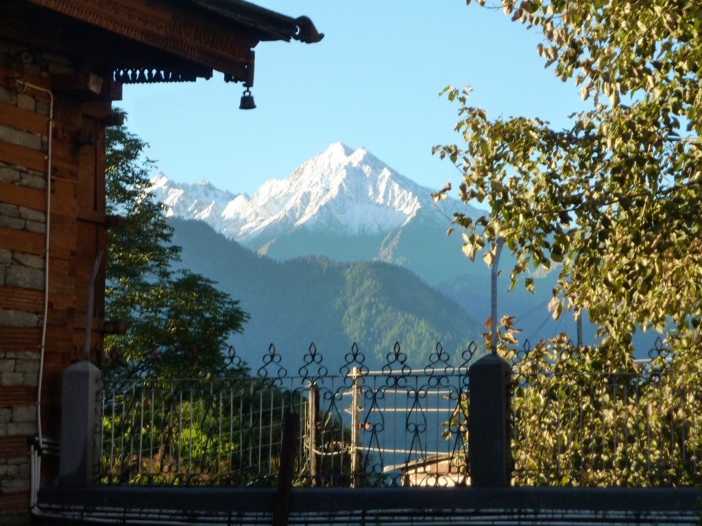 i took this photo of the view from the temple in 2010